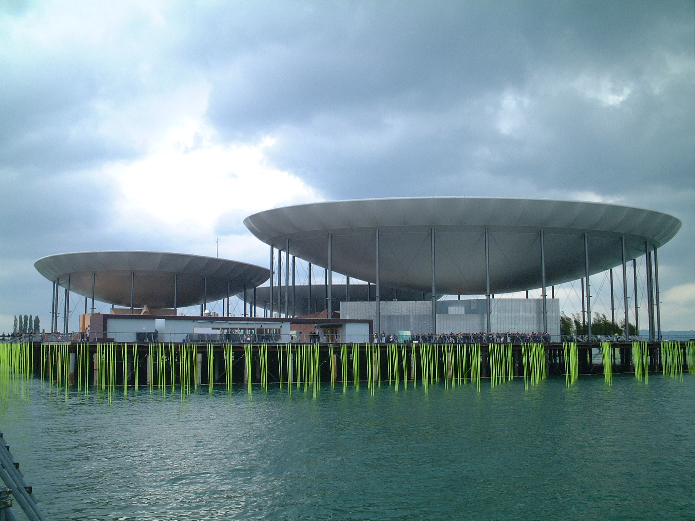 Expo.02 in Neuenburg, Yverdon, Biel and Murten (exact location see file name)